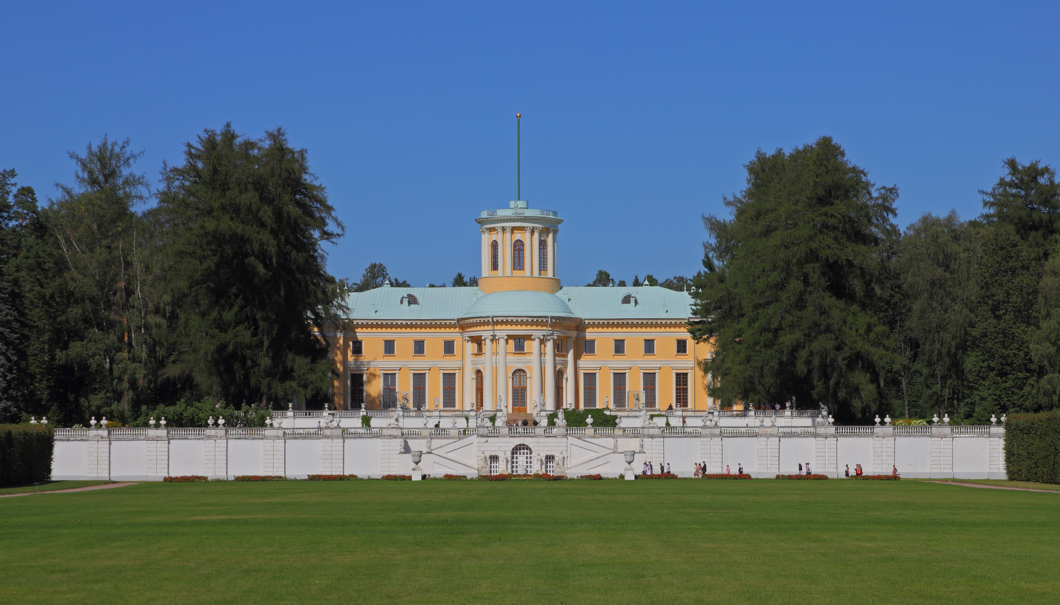 Former Arkhangelskoe Estate in Krasnogorsky District of Moscow Oblast, Russia. The main palace.